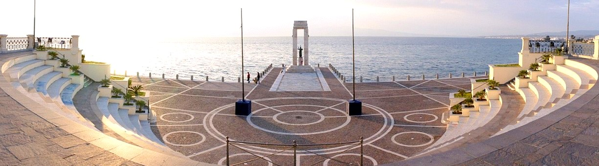 Arena dello Stretto in the city of Reggio Calabria